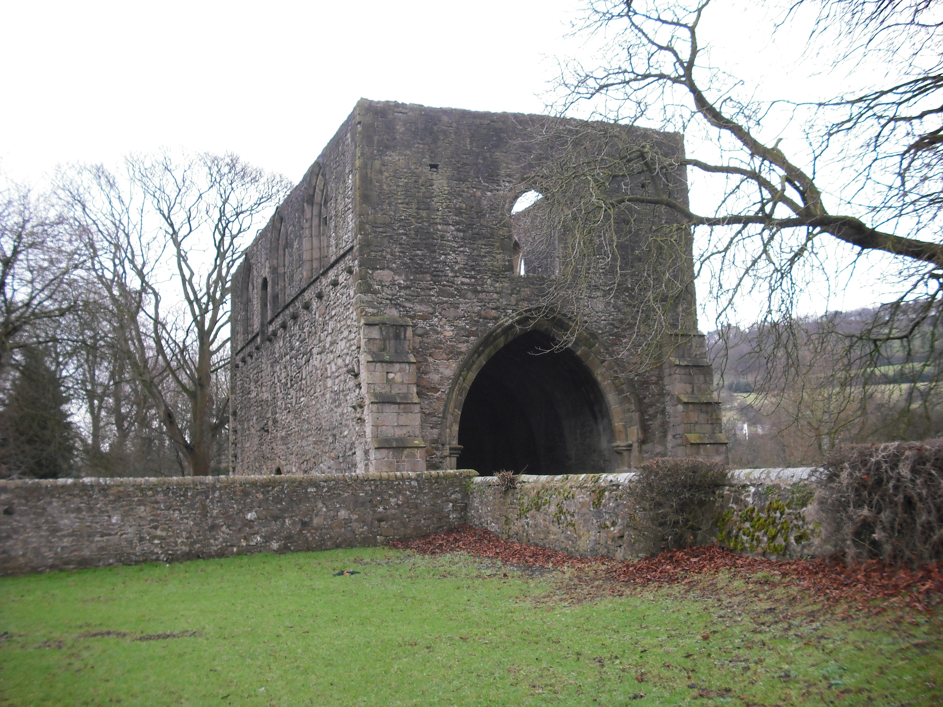 Whalley Abbey Northwest Gateway from the waat (field)